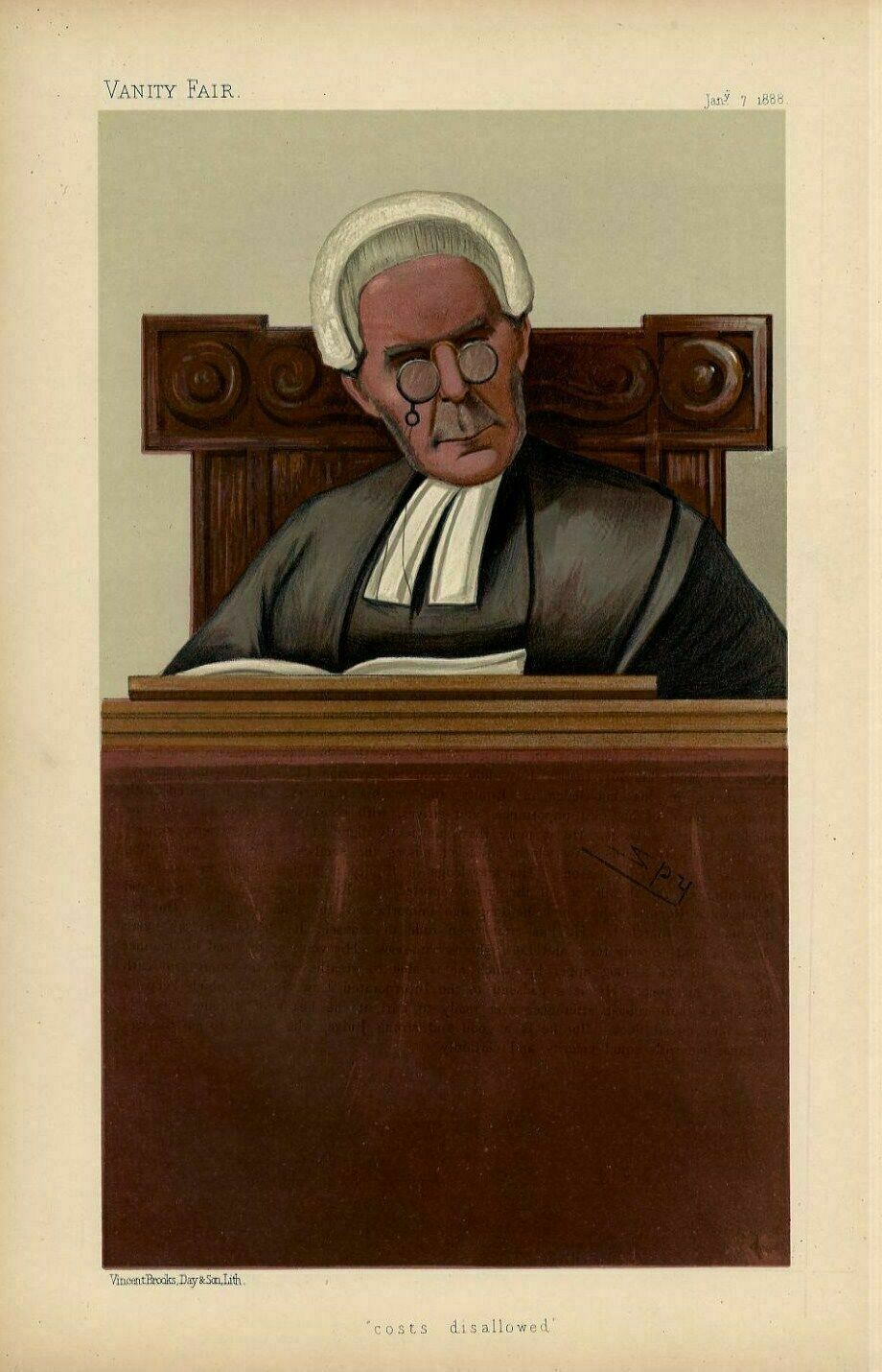 Caricature of The Hon Sir Edward Ebenezer Kay. Caption read "costs disallowed".